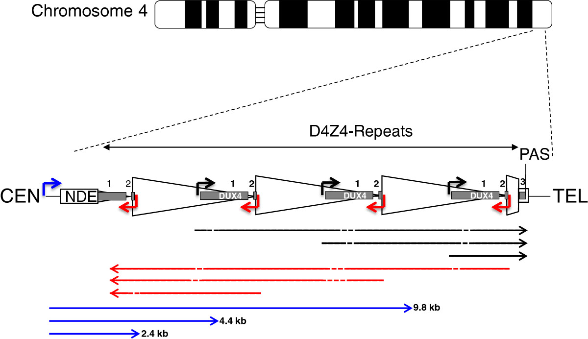 This diagram illustrates the genetic mechanisms for Facioscapulohumeral muscular dystrophy. From the journal article's description of this figure: "The D4Z4 locus is in the sub-telomeric region of 4q. The figure shows a three repeat D4Z4 array. CEN indicates the centromeric end and TEL indicates the telomeric end. The DUX4 gene is shown as a gray rectangle with exon 1 and exon 2 in each repeat and exon 3 in the pLAM region telomeric to the last partial repeat (numbered 1, 2, and 3). PAS indicates the polyadenylation site on the permissive 4qA allele that is not present on the non-permissive 4qB allele or on chromosome 10. The arrowed lines represent: Blue, DBE-T transcripts (2.4, 4.4, and 9.8 kb) found in FSHD cells and reported to de-repress DUX4 expression; Black and red, transcripts in the sense and anti-sense direction were detected in both FSHD and control cells and might originate from the mapped sense promoters (black) and anti-sense promoters (red) with dashed lines indicating areas that might be degraded or produce si-like small RNAs. NDE, non-deleted element identified as the transcription start site for the DBE-T transcripts."